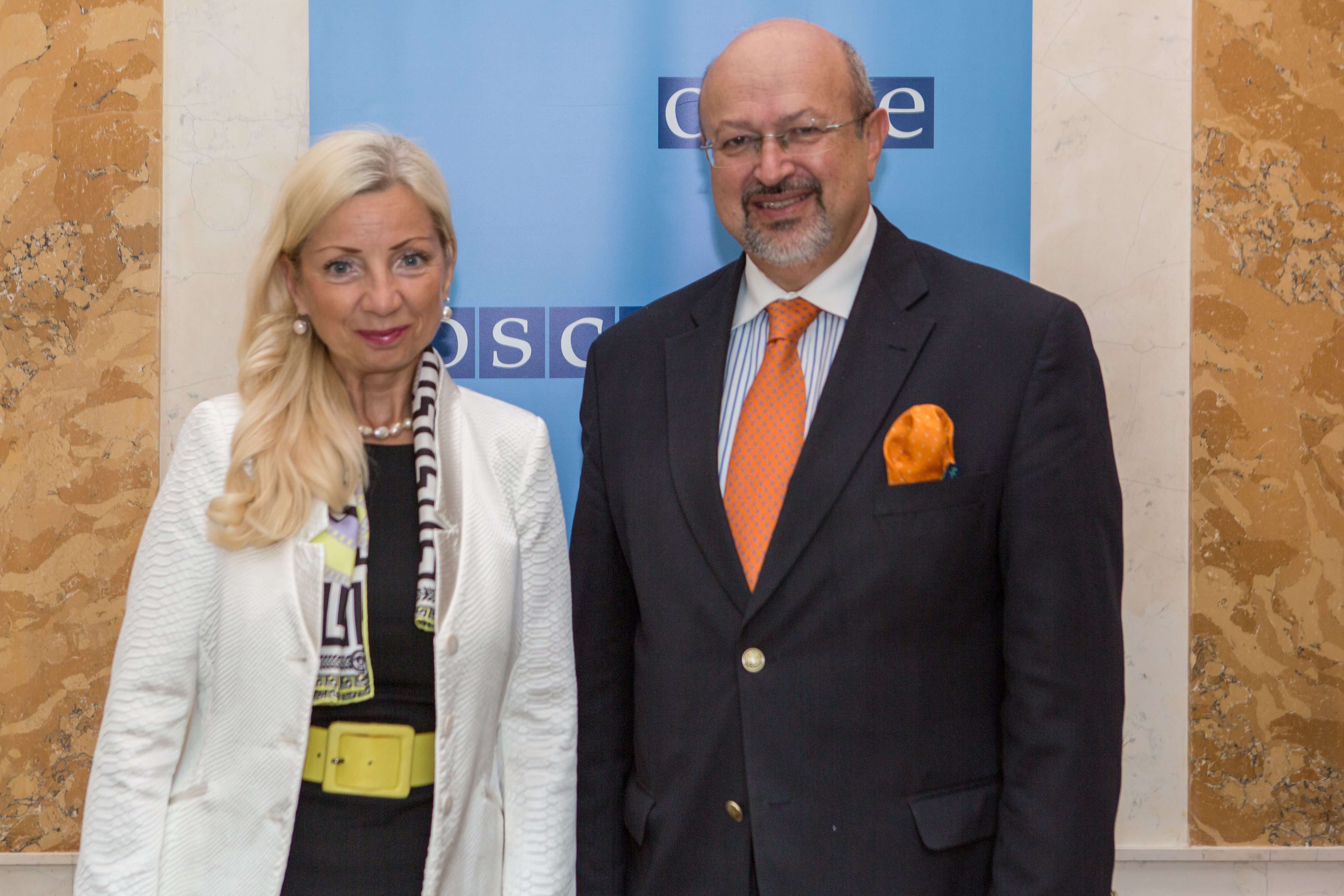 Photo: OSCE